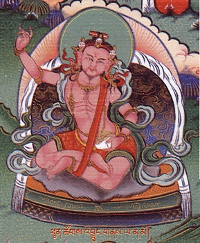 Second Dodrupchen Rinpoche, Jikmé Puntsok Jungné (Wylie: 'jigs med phun tshigs 'byung gnas) (1824–1863)